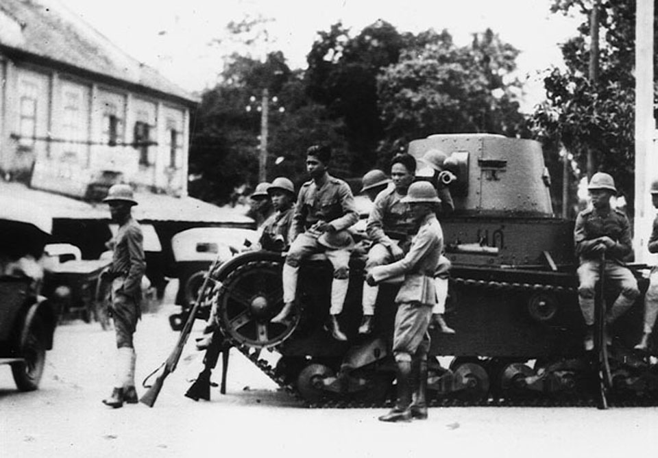 Troops-on-the-street-after-the-coup